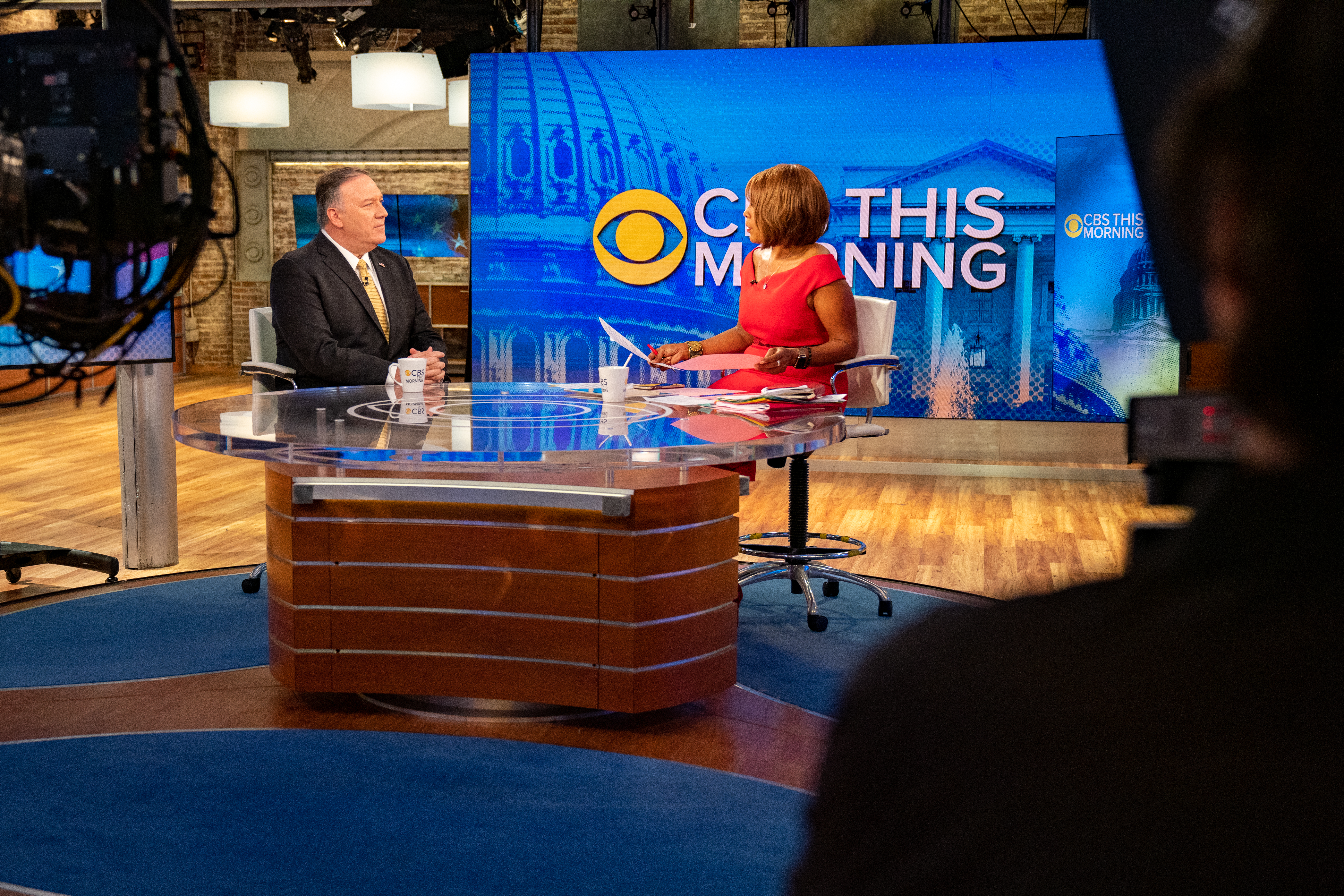 U.S. Secretary of State Michael R. Pompeo participates in a television interview with Gayle King from CBS news in New York, New York on August 20, 2019. [State Department photo by Ron Przysucha/Public Domain]